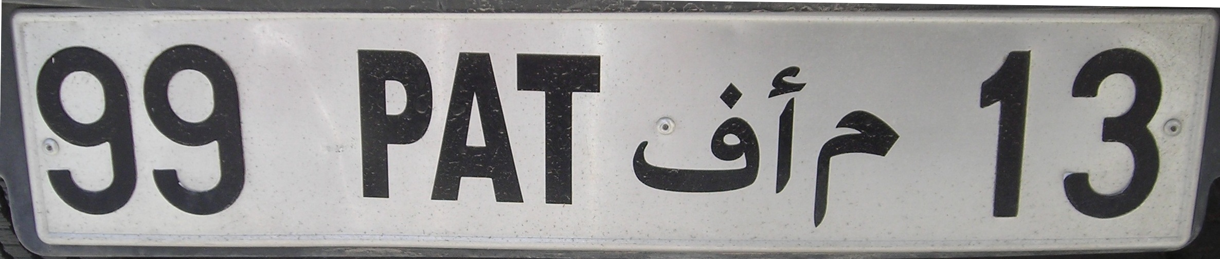 Tunisian license plates